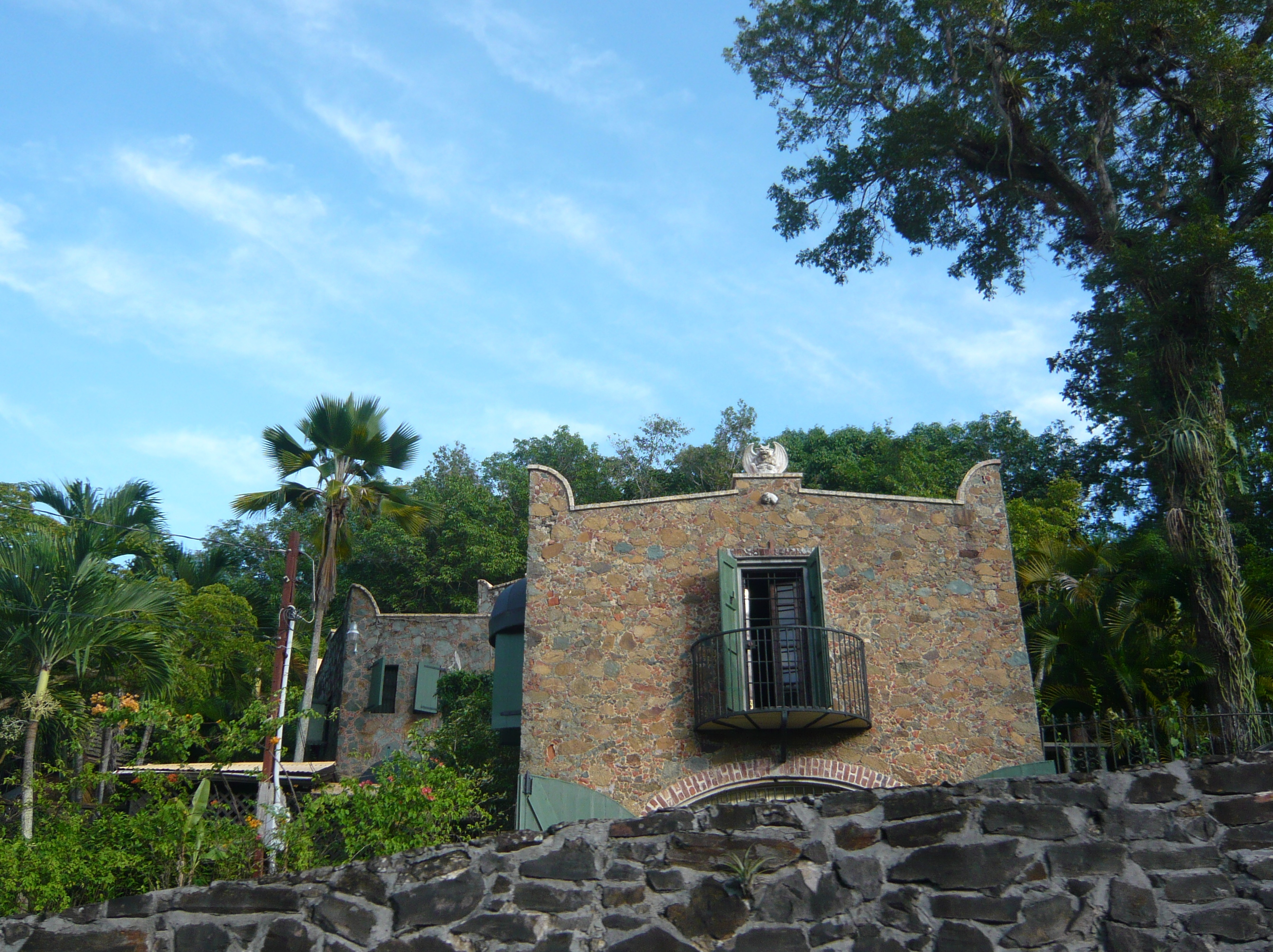 Louisenhoj Castle Gatehouse, St. Thomas, USVI, Jan 2010.